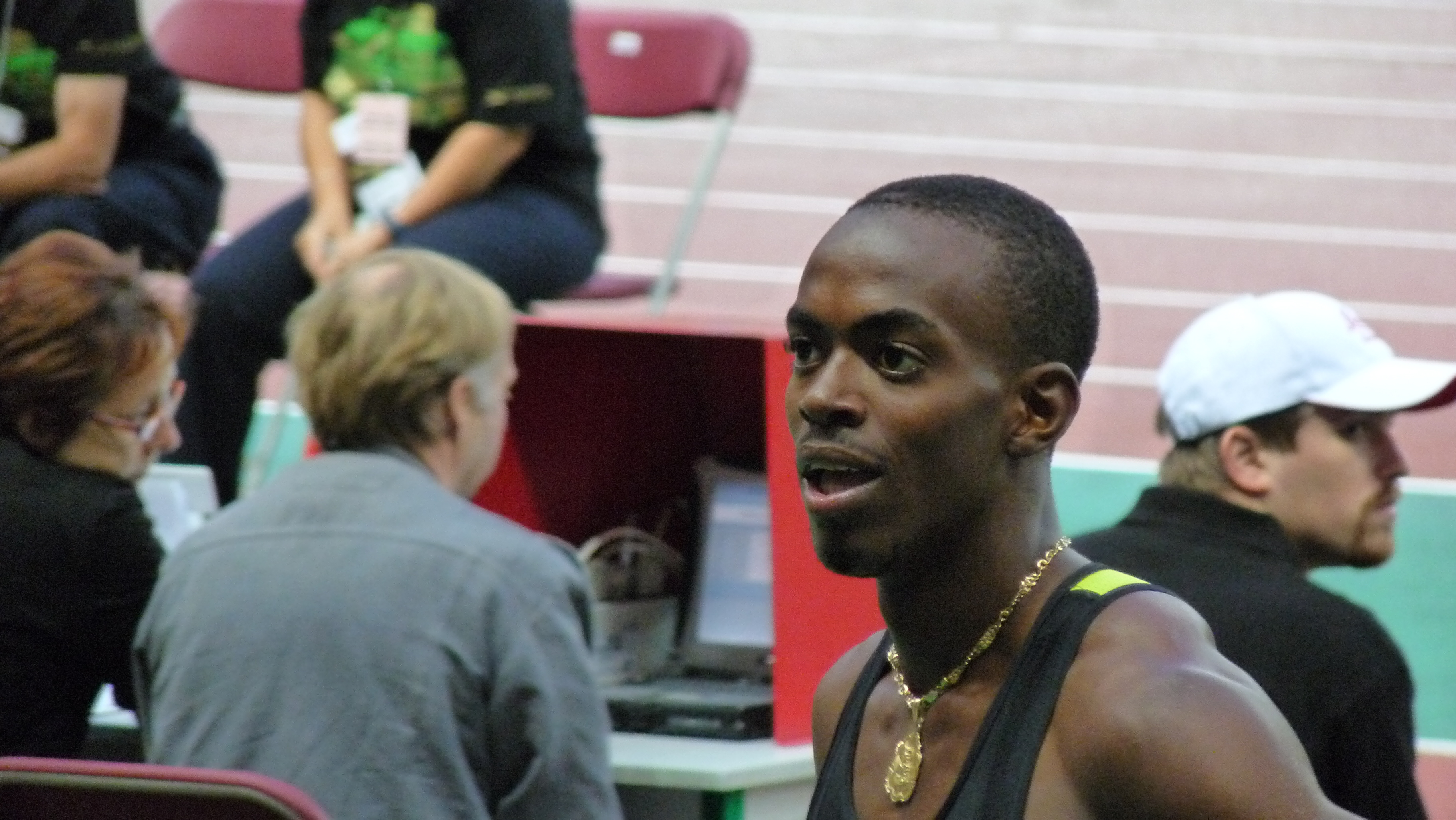 Alexis Copello at Meeting Areva 2009